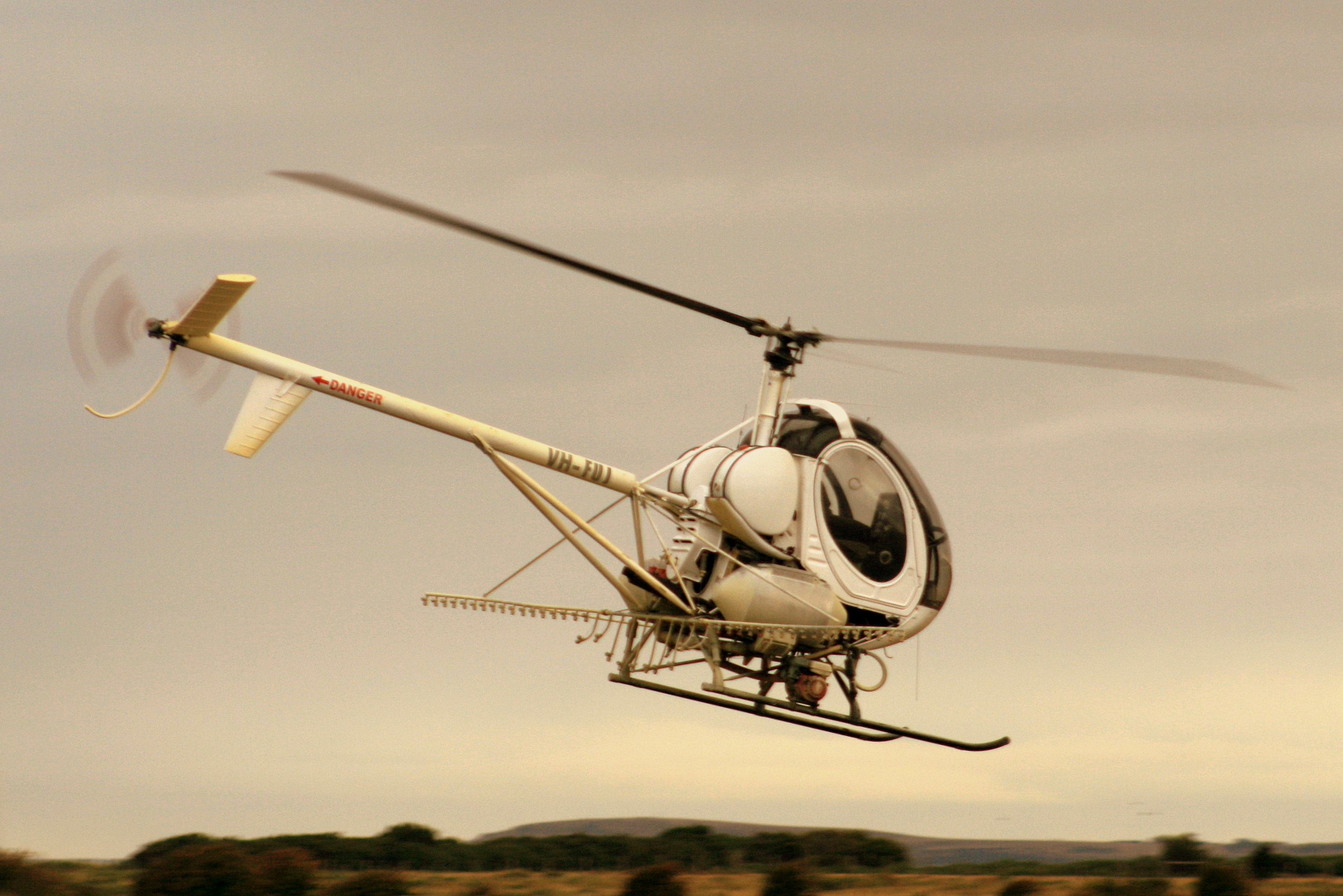 A Schweizer 269C equipped with spraying bars takes off at Devonport Airport in the Australian state of Tasmania.